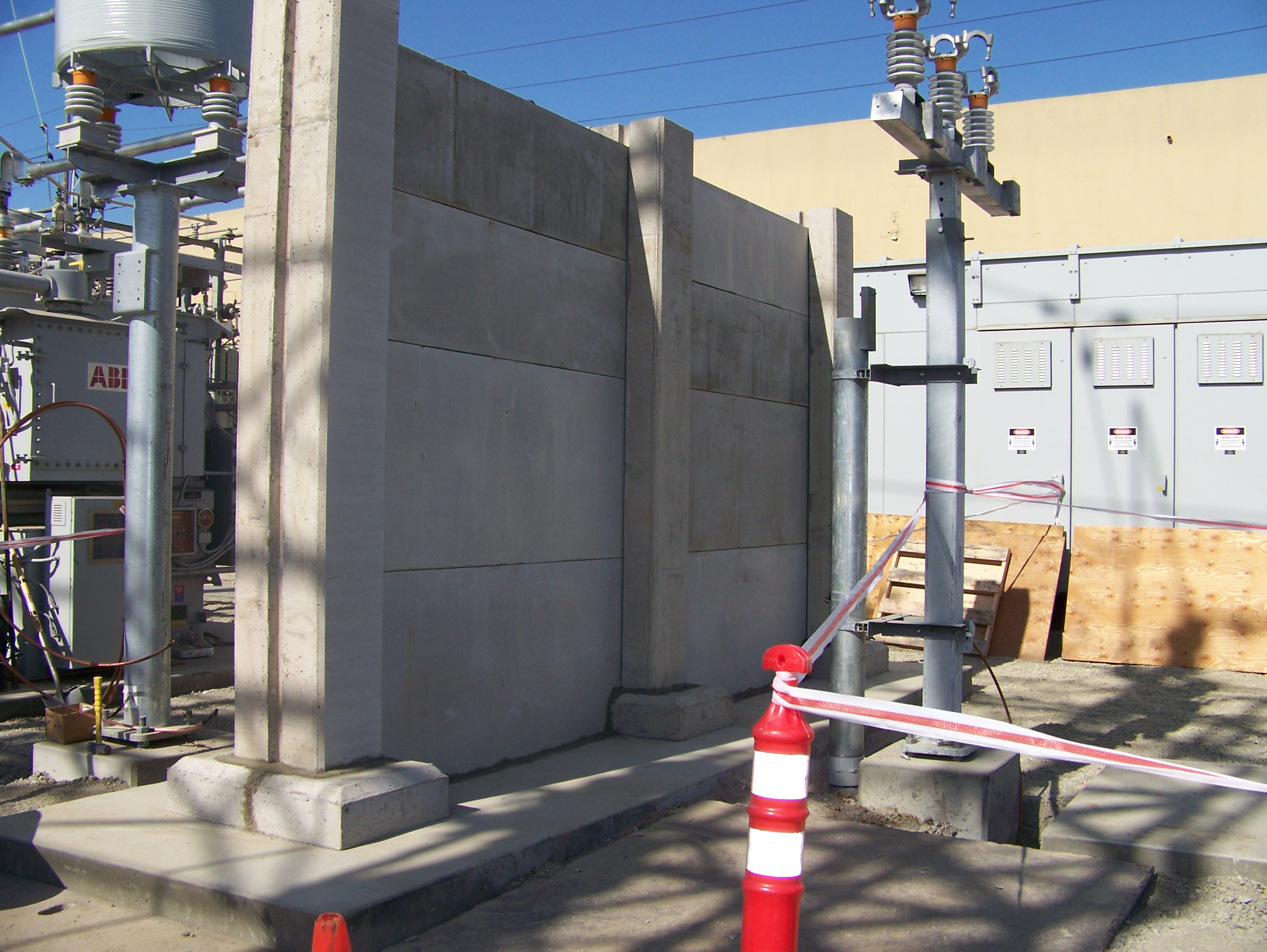 Substation Firewall installed between substation transformers. This product is represented as being "certified" (meaning listed, not just tested) by SWRi. As of January 2012, it is not under the SWRi certification programme. See the talk page for details.